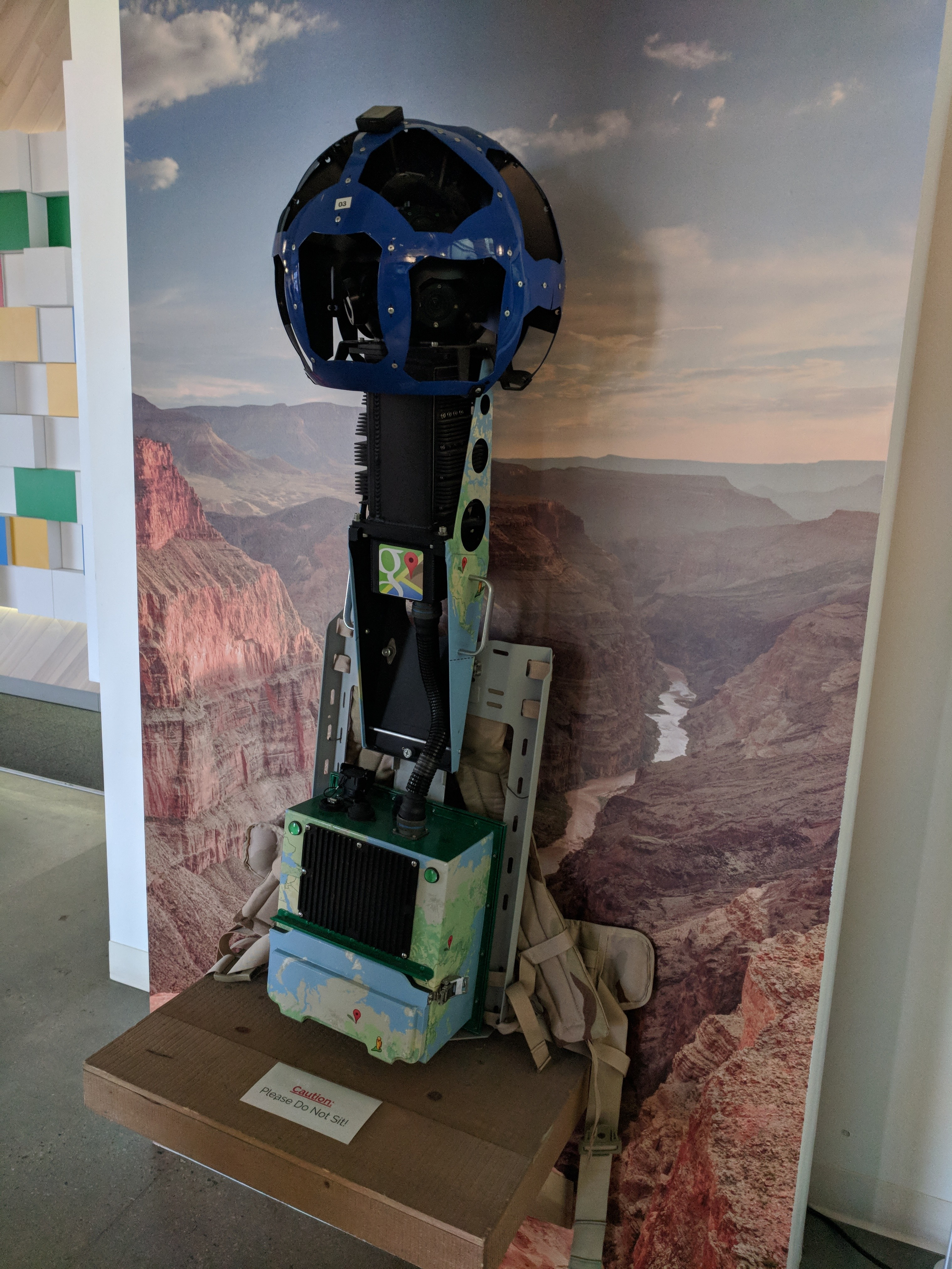 A Google Street View camera designed to be worn on a backpack, on display in a Google office building.